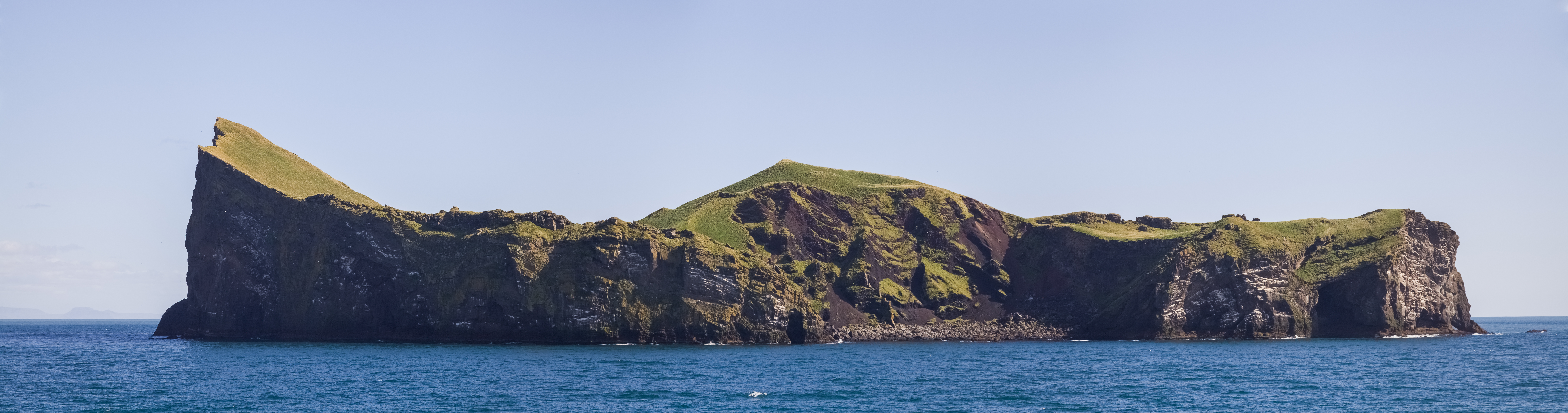 Elliðaey island, Westman Islands, Suðurland, Iceland